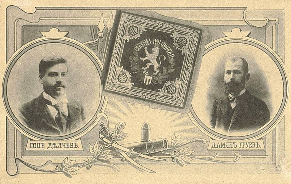 Postcard with Gotse Delchev, Dame Gruev and bulgarian flag